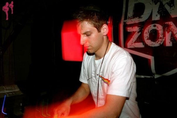 DJ EBK performing live